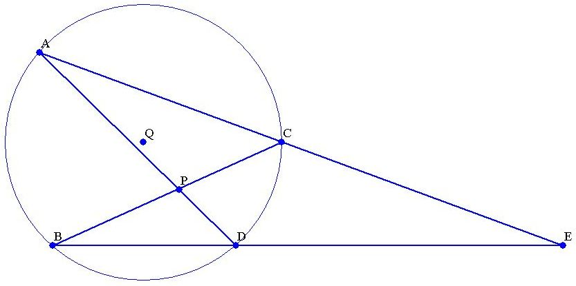 Theorem of al-Haitham.Ibn al-Haytham is academician.